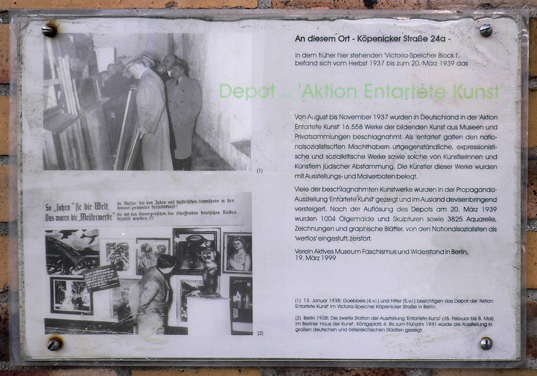 Memorial plaque, Entartete Kunst, Köpenicker Straße 24, Berlin-Kreuzberg, Germany Koordinate:52°30′23″N 13°25′52″E / 52.50639°N 13.43111°E